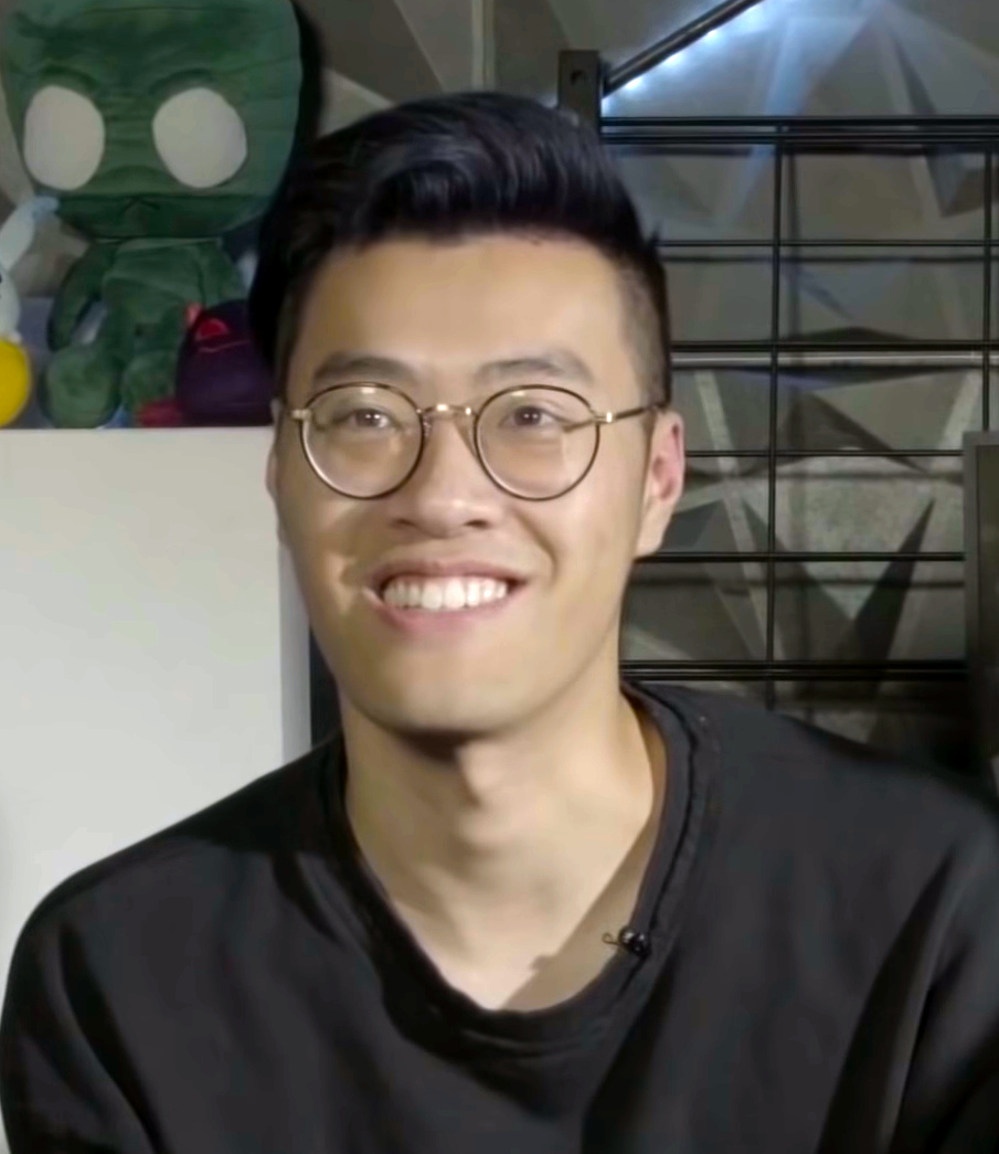 Professional League of Legends player WildTurtle in 2019